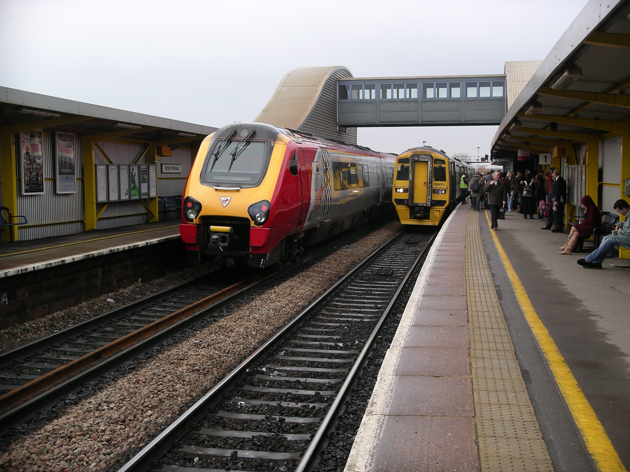 Bristol Parkway stations showing platforms, footbridge and two trains